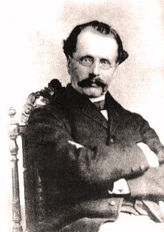 Dr. Carl Brendel (1835-1922)